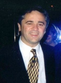 Brian Tobin, Former Premier of Newfoundland and Labrador